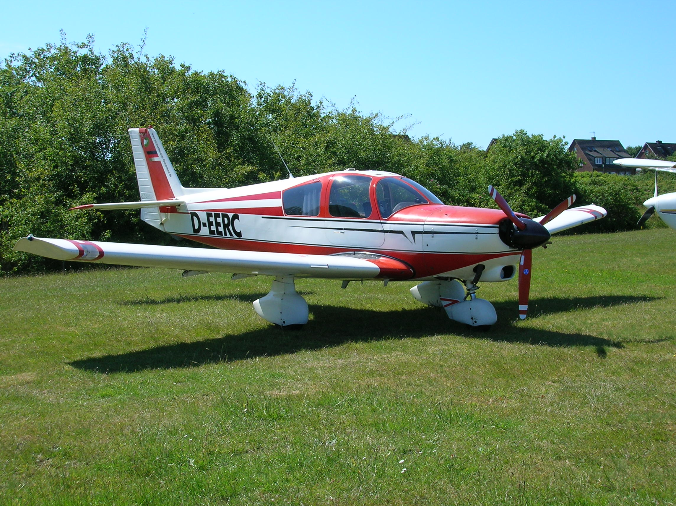 Wassmer WA-54 Atlantic D-EERC at Langeoog Airport, Germany